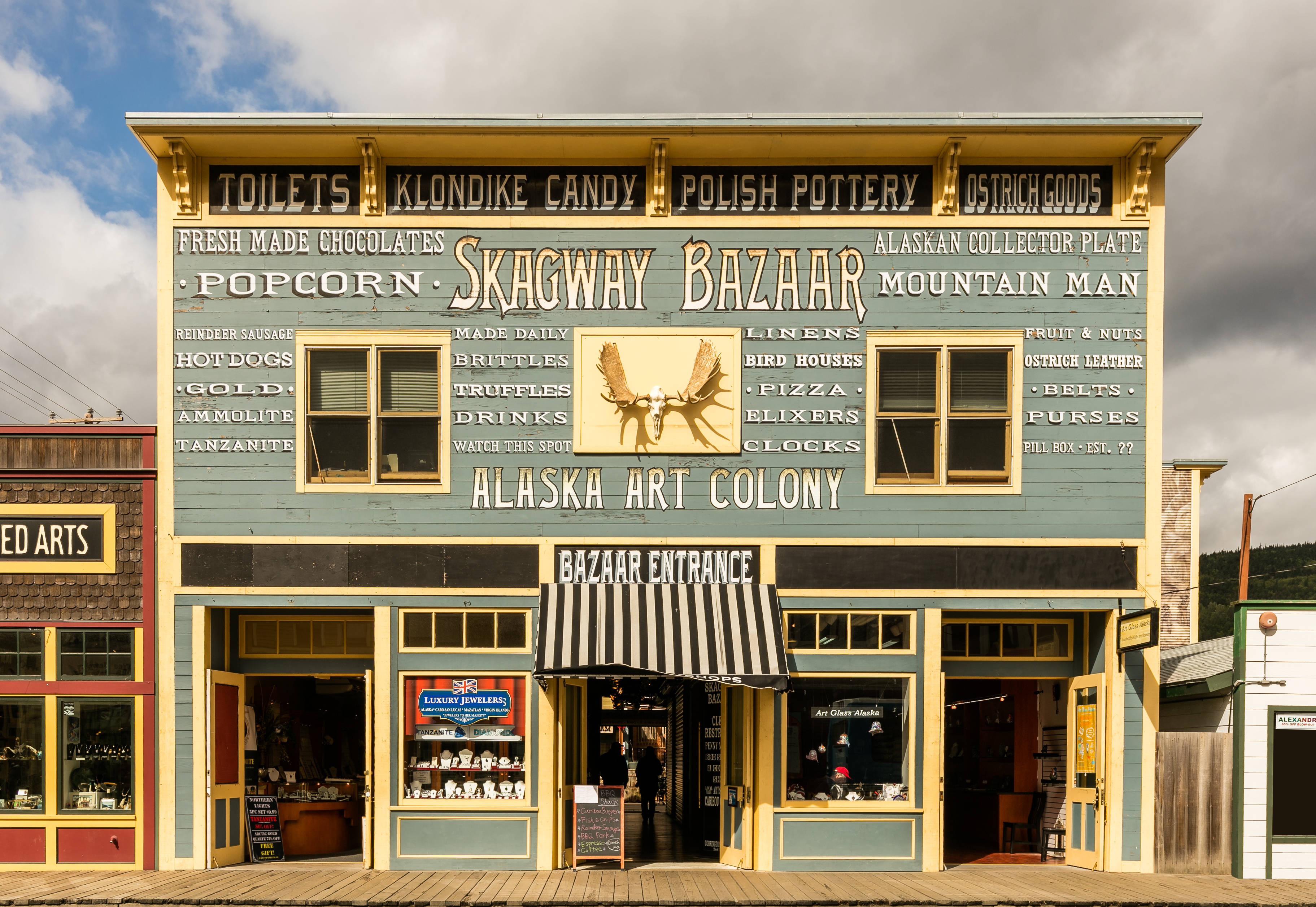 Skagway Bazaar, shop in Skagway Historic District in tradicional wooden style, Alaska, United States.